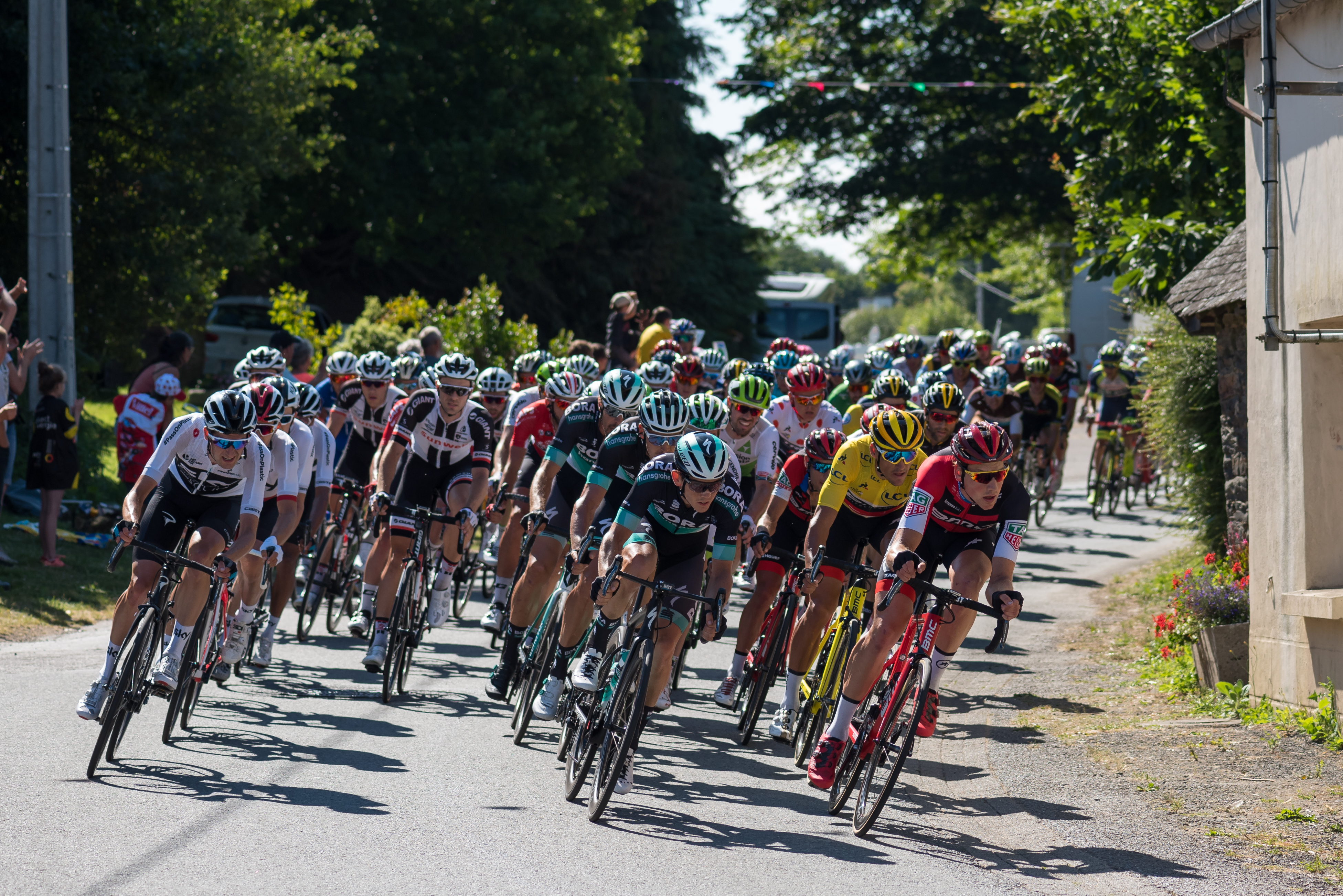 Avermaet leads peloton through St Mayeux, 2018 TDF